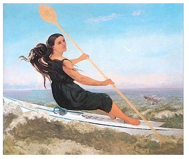 La Femme au podoscaphe, oil on canvas, dim. : 170.5 x 208 cm, Murauchi Art Museum, Tokyo.